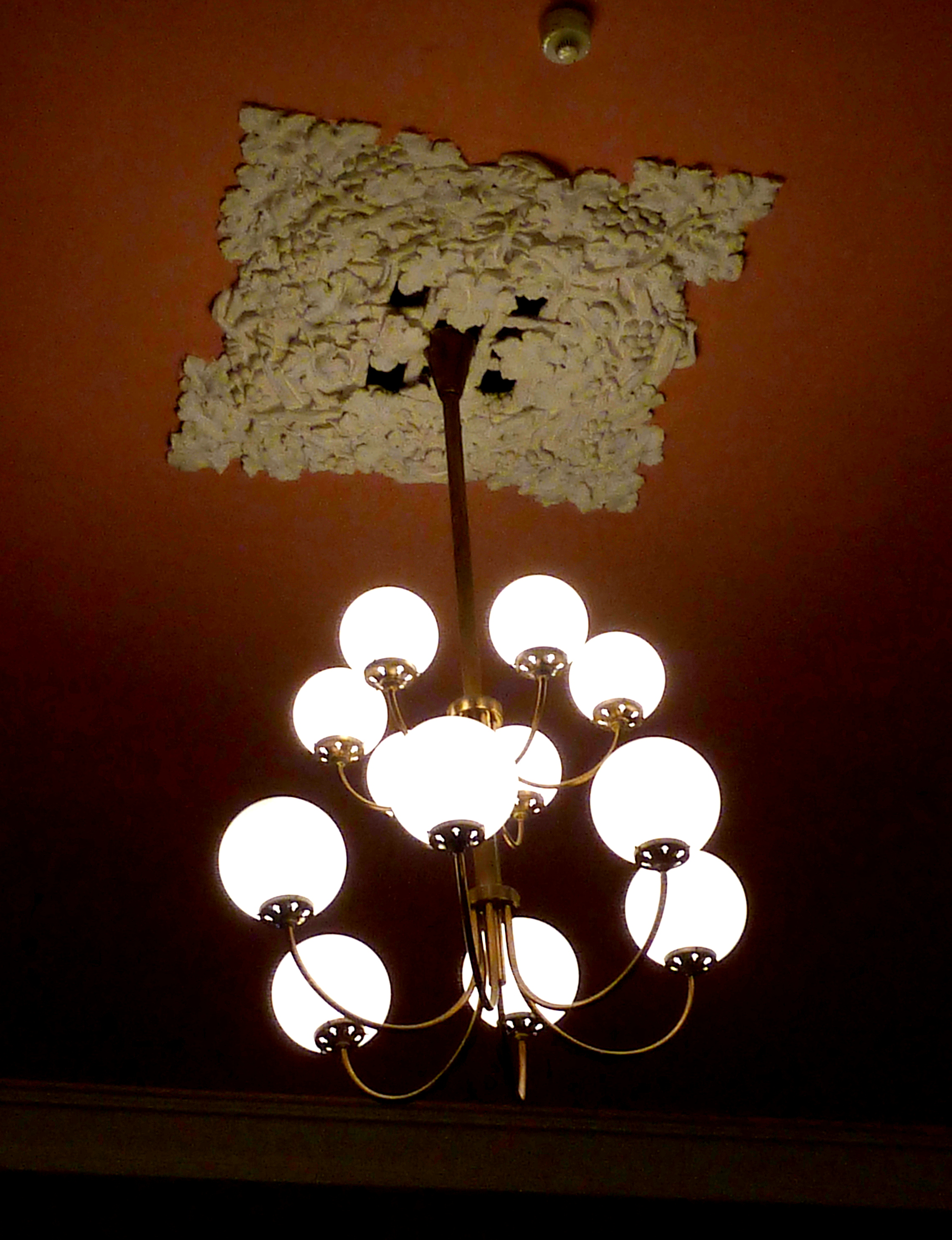 Kings Hall, Herne Bay, Kent England. Hall, looking upwards towards light fixture.